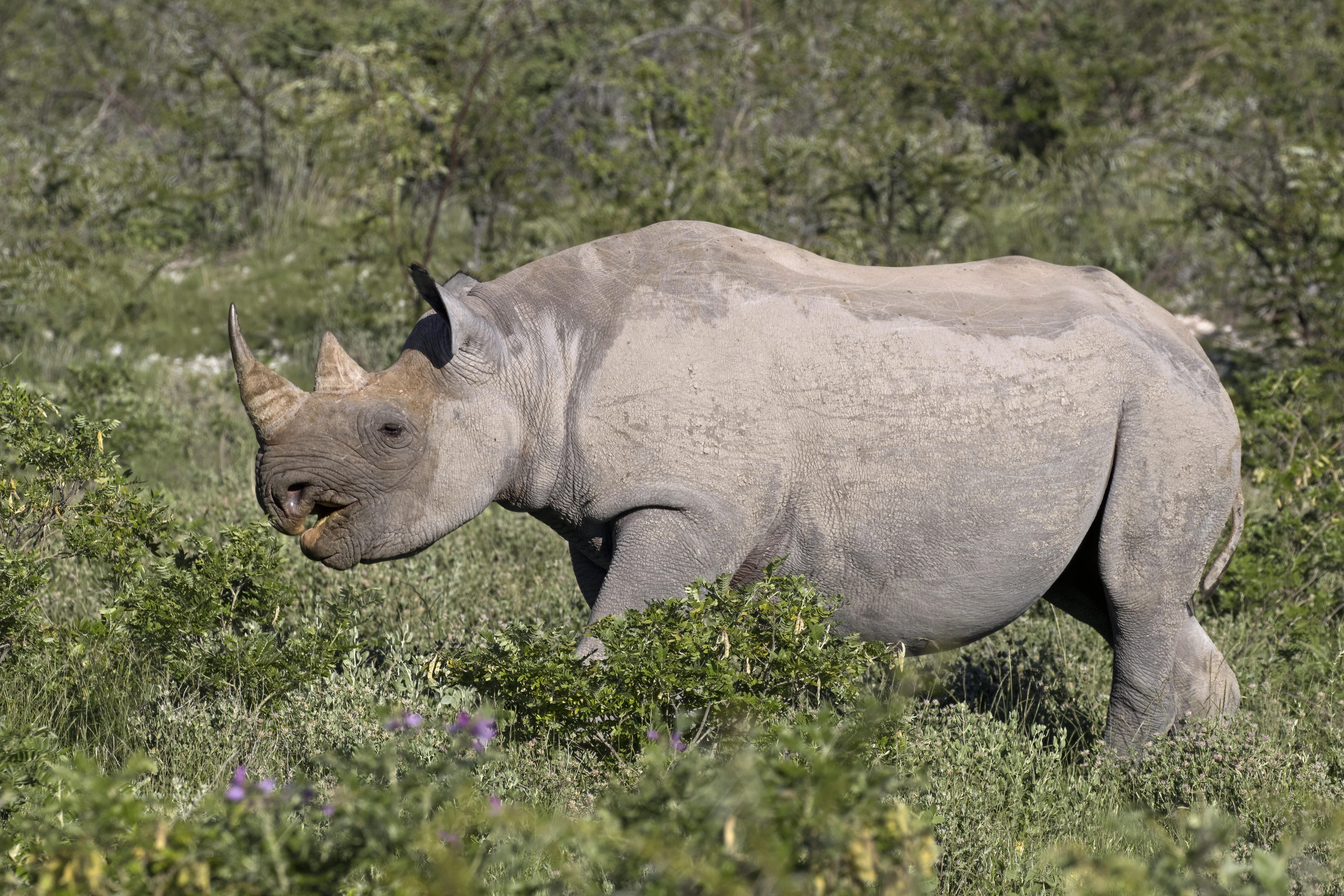 South-western black rhinoceros (Diceros bicornis occidentalis) female, Etosha National Park, Namibia